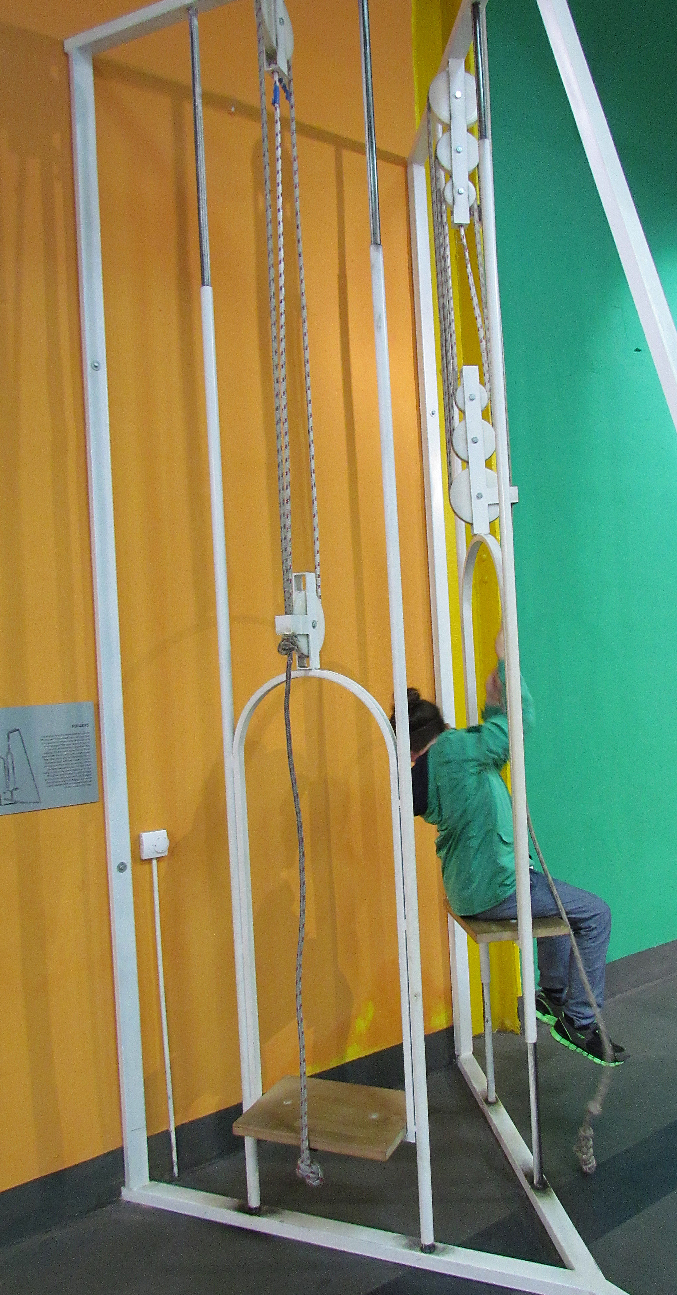 Demonstration of pulley in Museum of Science and Technology, Belgrade